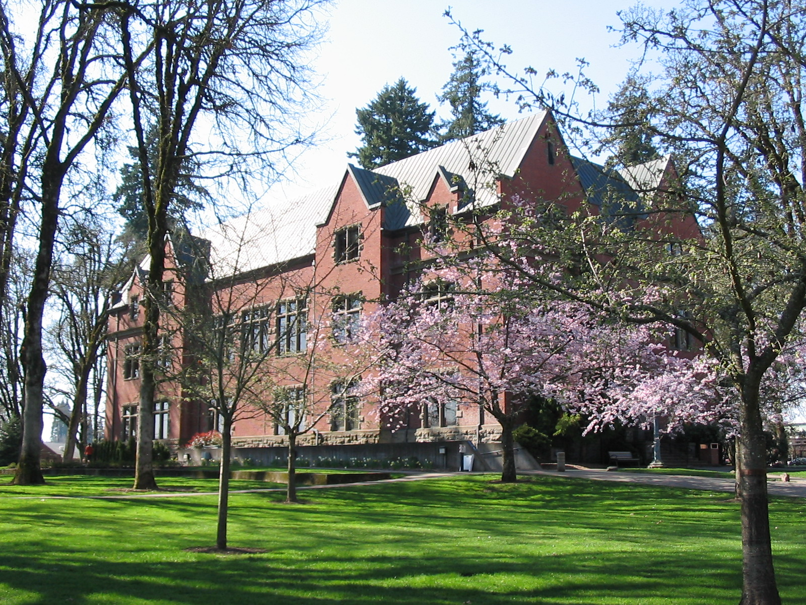 Marsh Hall, the main building of Pacific University.